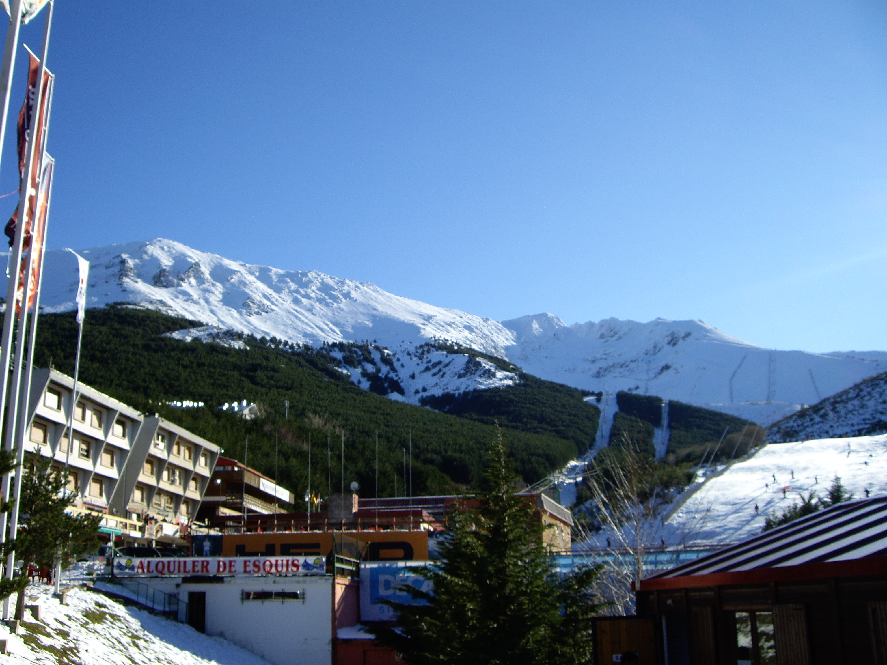 Picture of ski-station of La Pinilla - in the Spanish province of Segovia